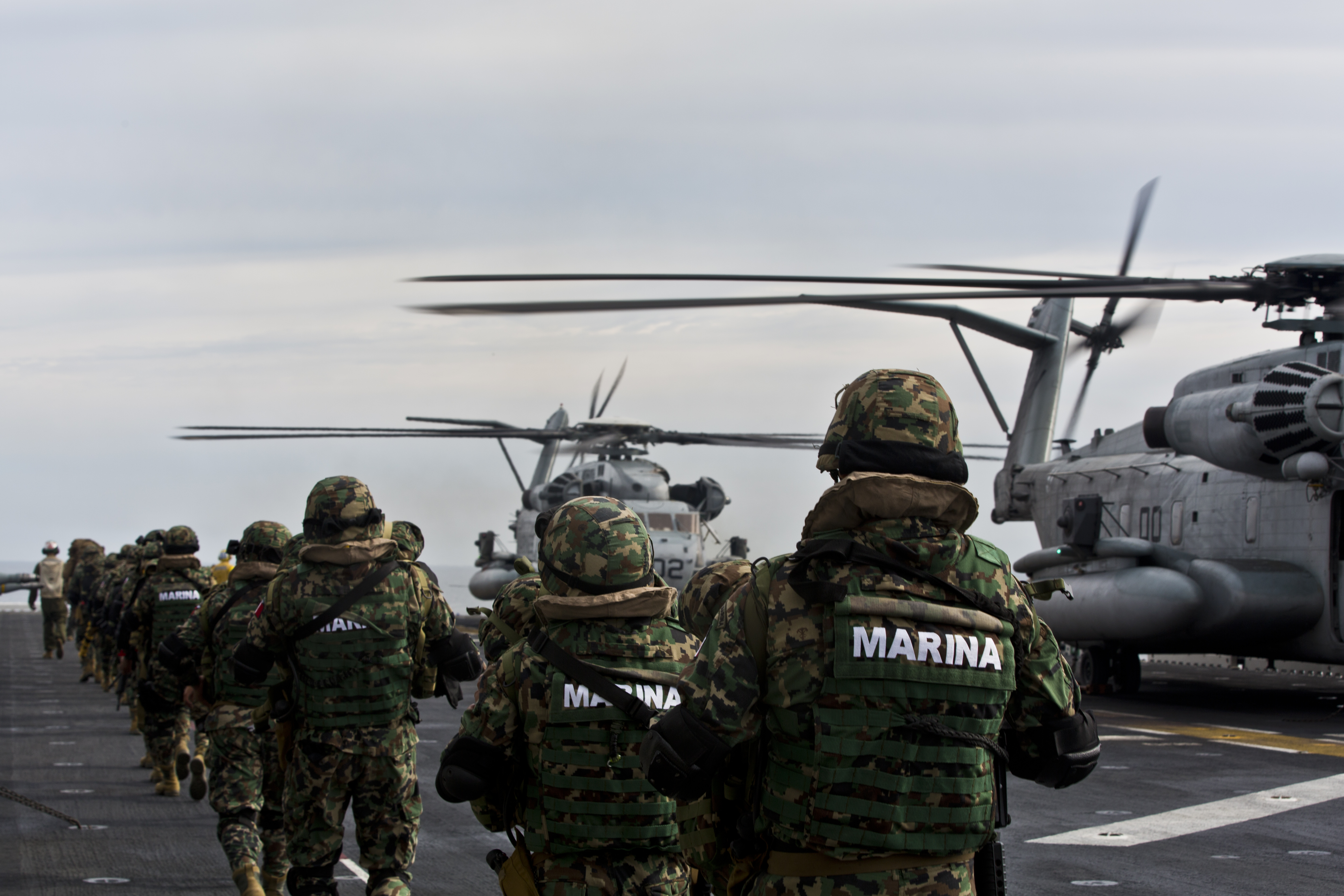 Mexican Marines transport their gear to a CH53E Super Stallion aboard the USS Kearsarge (LHD3) during Bold Alligator 14, Nov. 4, 2014. Bold Alligator is a multi-national, synthetic naval exercise designed to train the full range of amphibious capabilities in order to provide unique and contemporary solutions to global challenges. (U.S. Marine Corps Lance Cpl. Tanner D. Casares/Released)